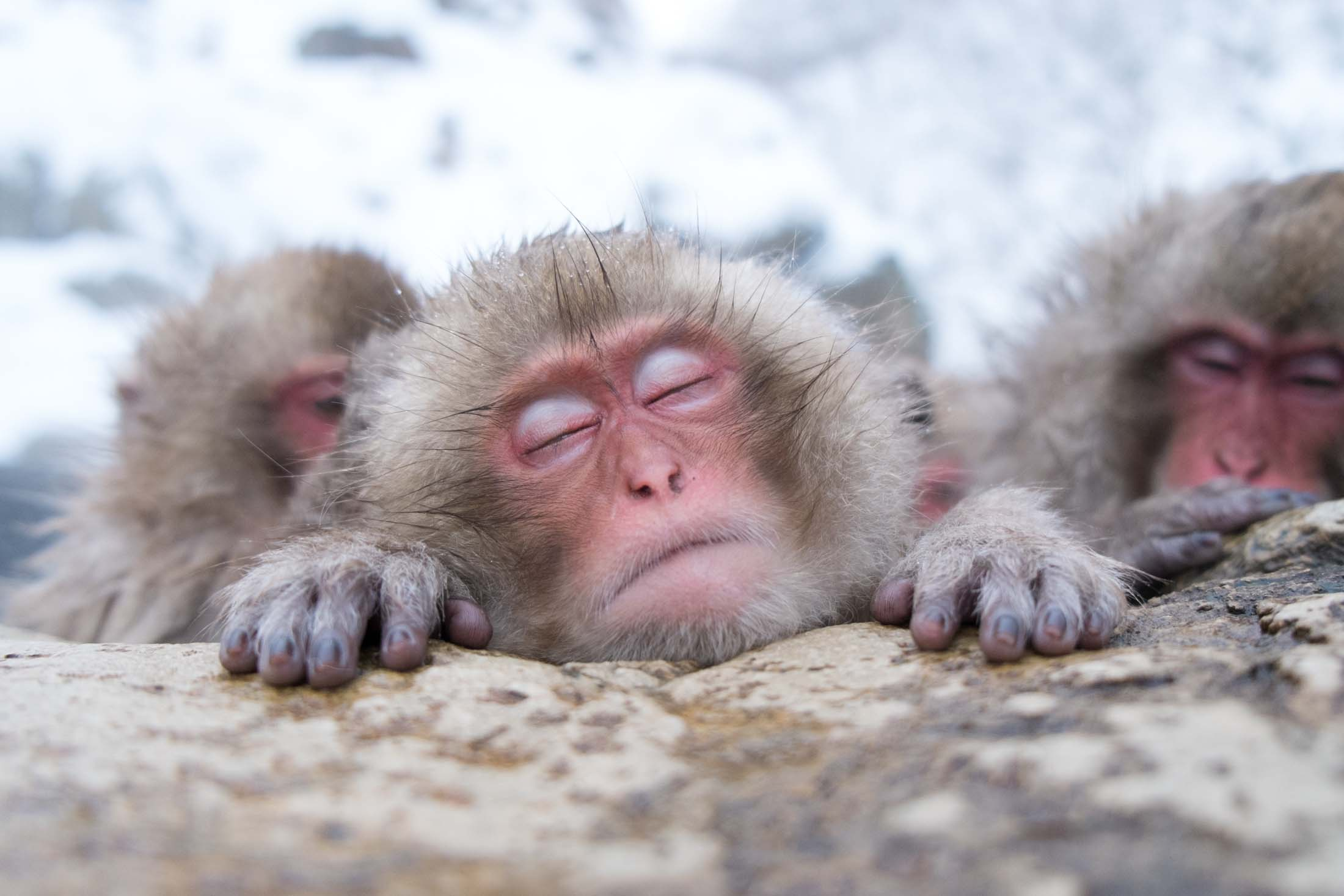 Baby snowmonky in hotspring